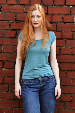 Charlotte Sieglin (2009)